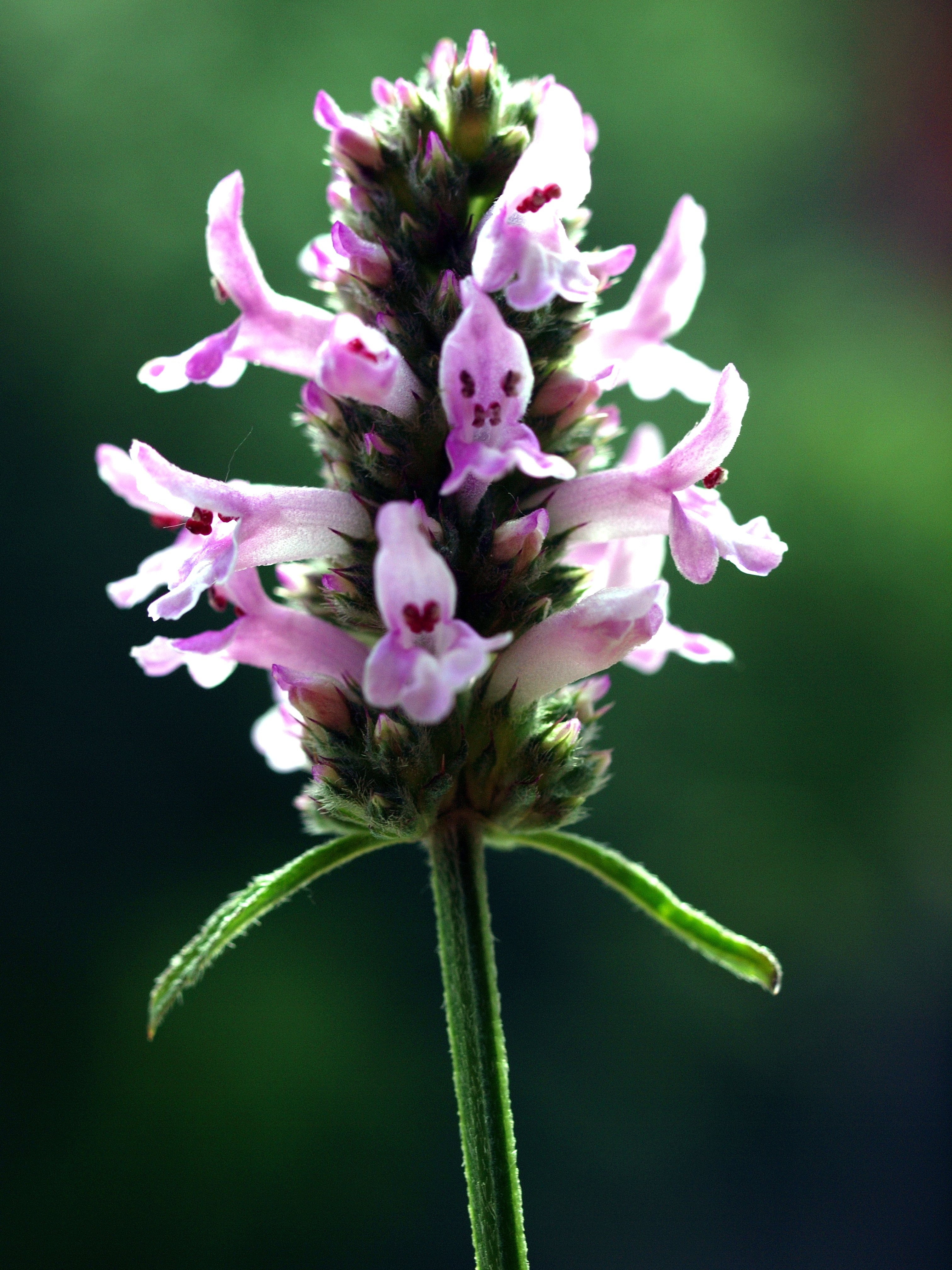 Betonica officinalis s.l. high mountain variety Mt. Orjen Montenegro